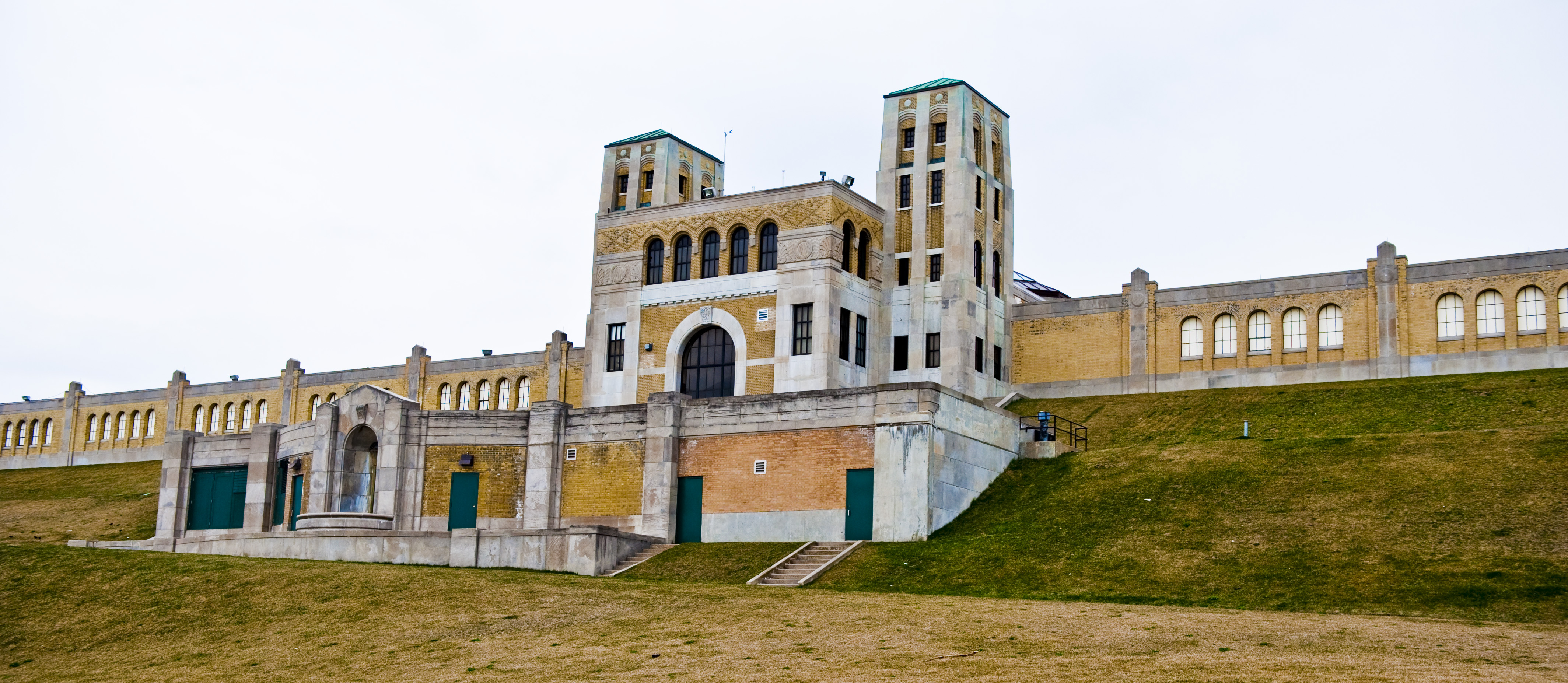 The R. C. Harris Water Treatment Plant, Toronto, Canada.